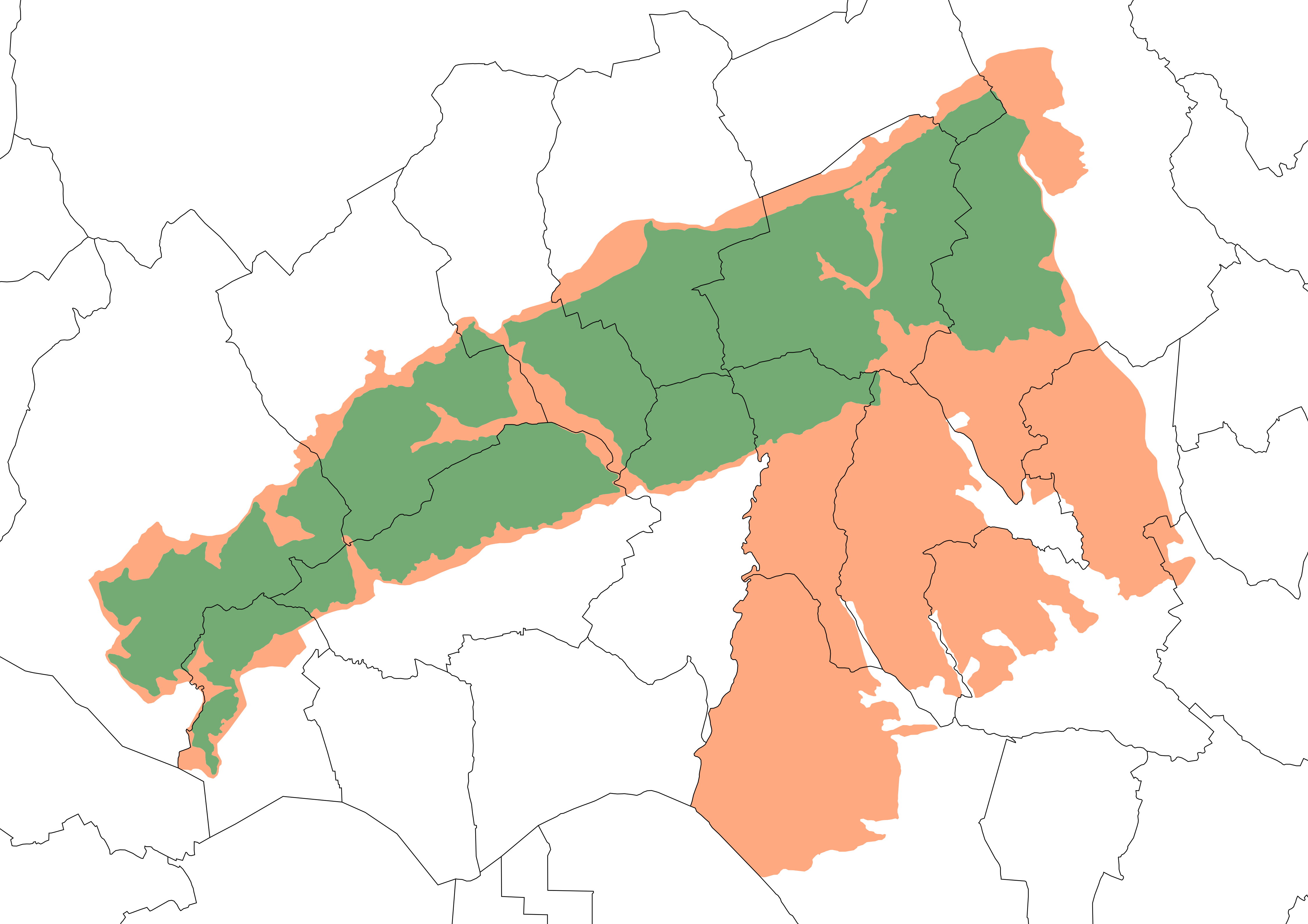 Map of the UNESCO World Heritage "Hills of Prosecco Conegliano Valdobbiadene". Green: core zone. Orange: buffer zone. Black: municipality borders